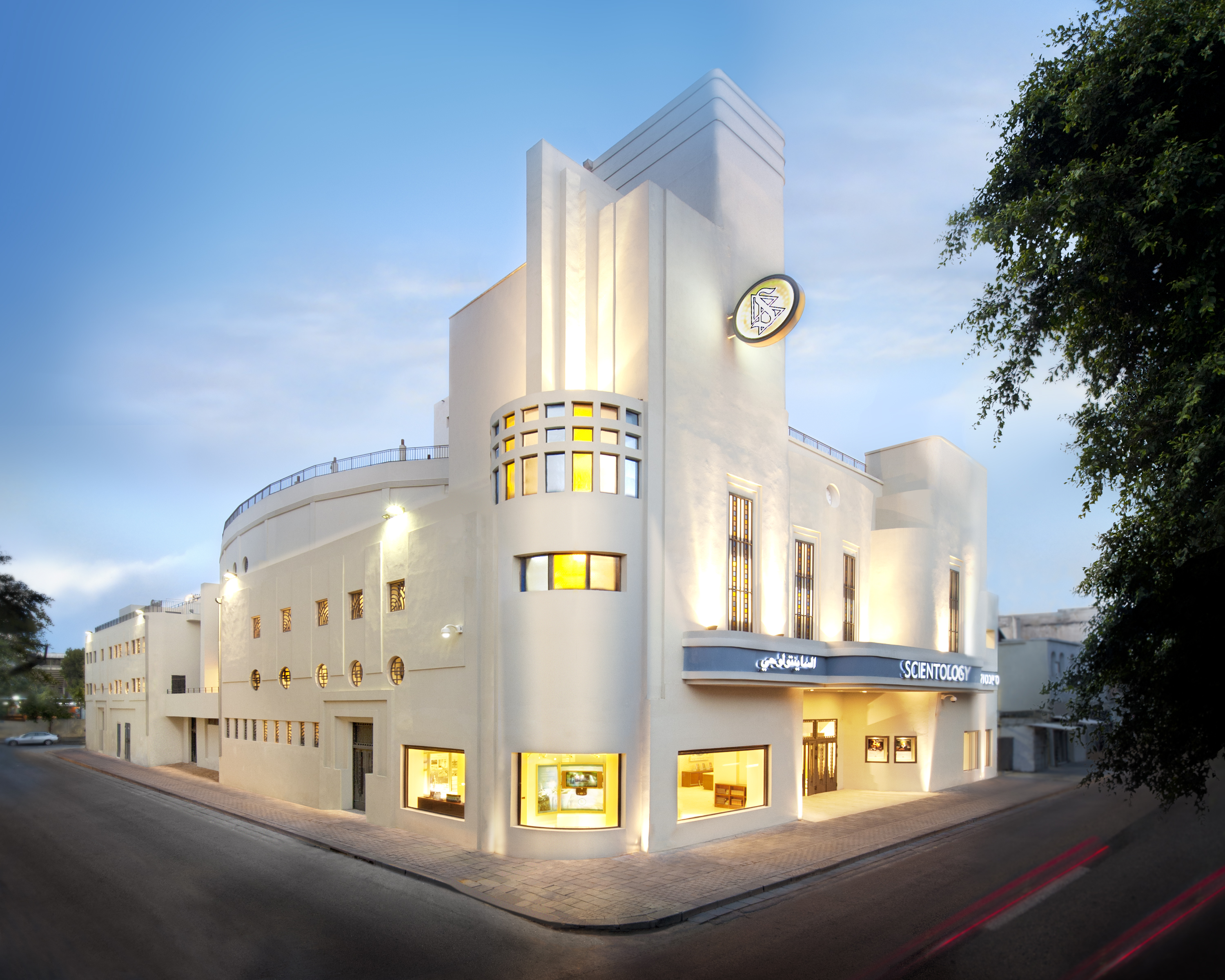 The Center of Scientology’s new home is the historic Alhambra Theater on Jerusalem Boulevard. Originally constructed in 1937, its distinctive Art Deco and International Style influenced many subsequent buildings in the vicinity. The Scientology Center fully restored the 60,000-square-foot building, which now provides for the delivery of all Scientology services and to extend humanitarian programs across the land.